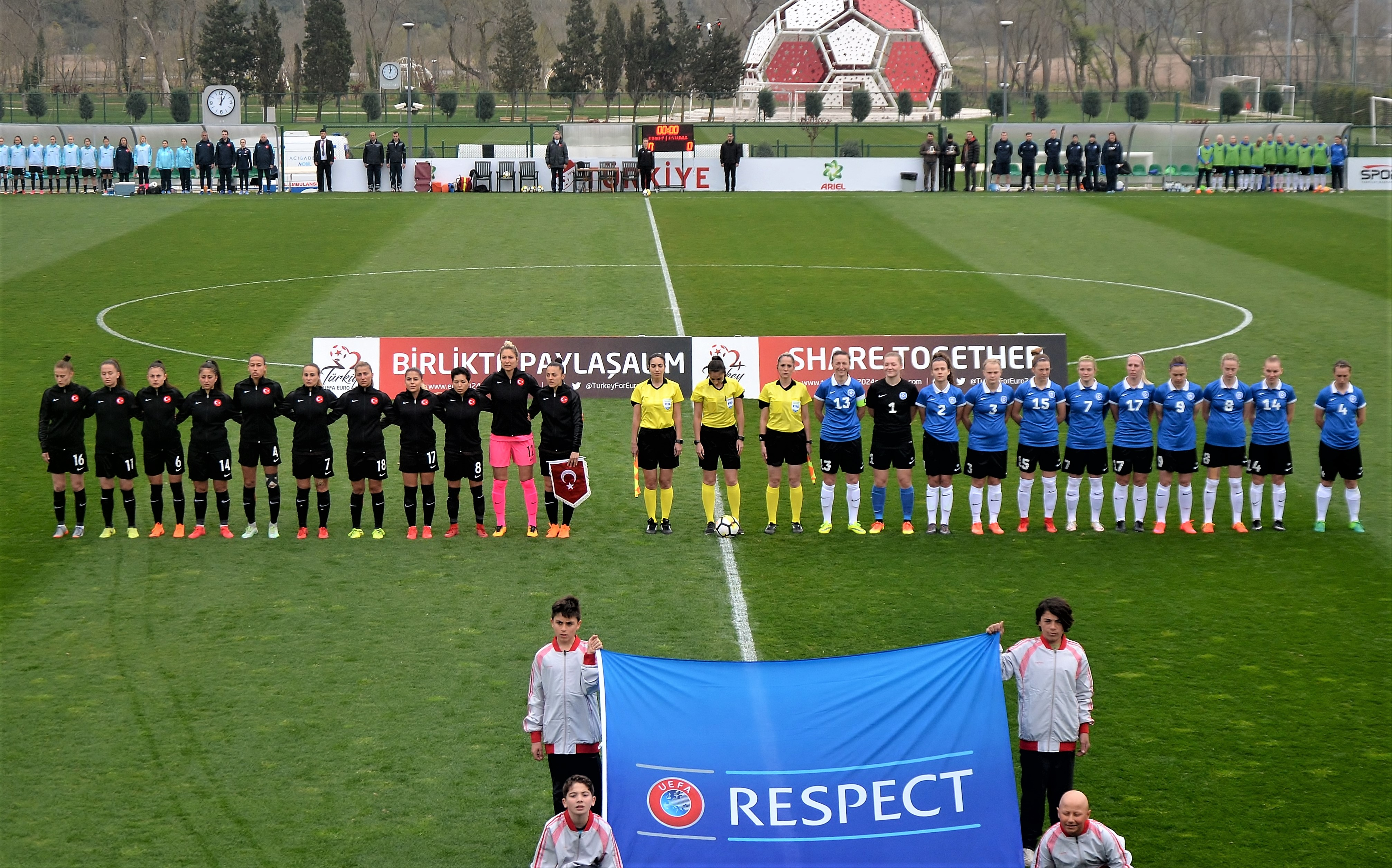 Turkey women's national team (red/black) vs Estonia (blue/black) in the friendly match at TFF Riva Facility on 7 April 2018.